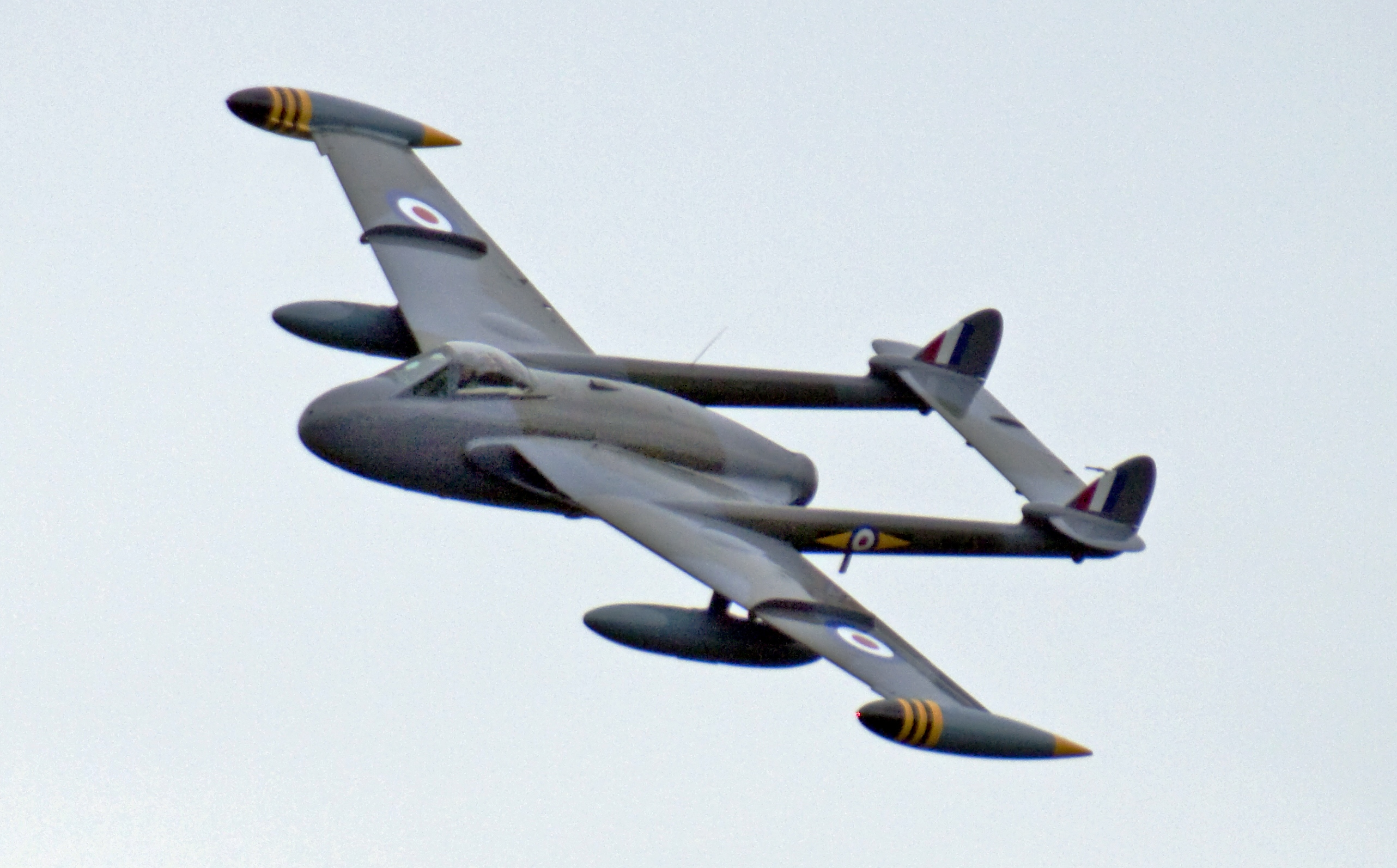 The weather had really closed in and it was beginning to rain. Unfortunately I was only able to get some very poor shots between wiping the rain off the lens